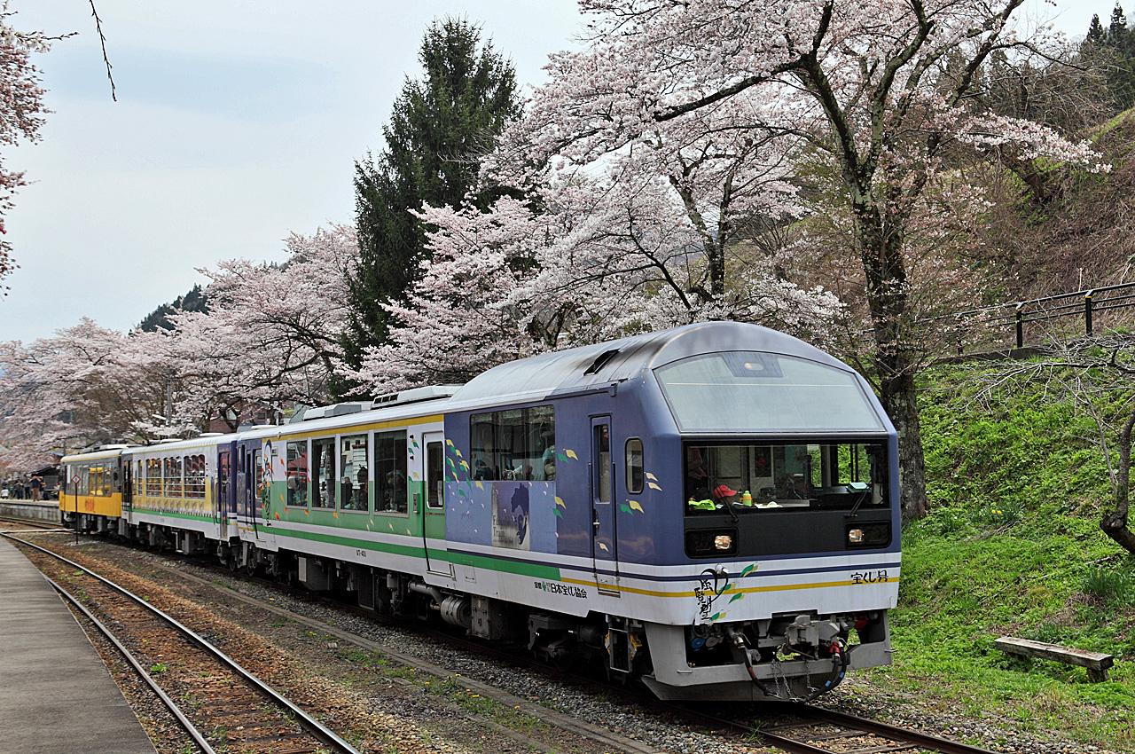 Aizu Railway Oza-Toro-Tembo Train (Type AT-400 + AT-350 + AT-100 DMU)